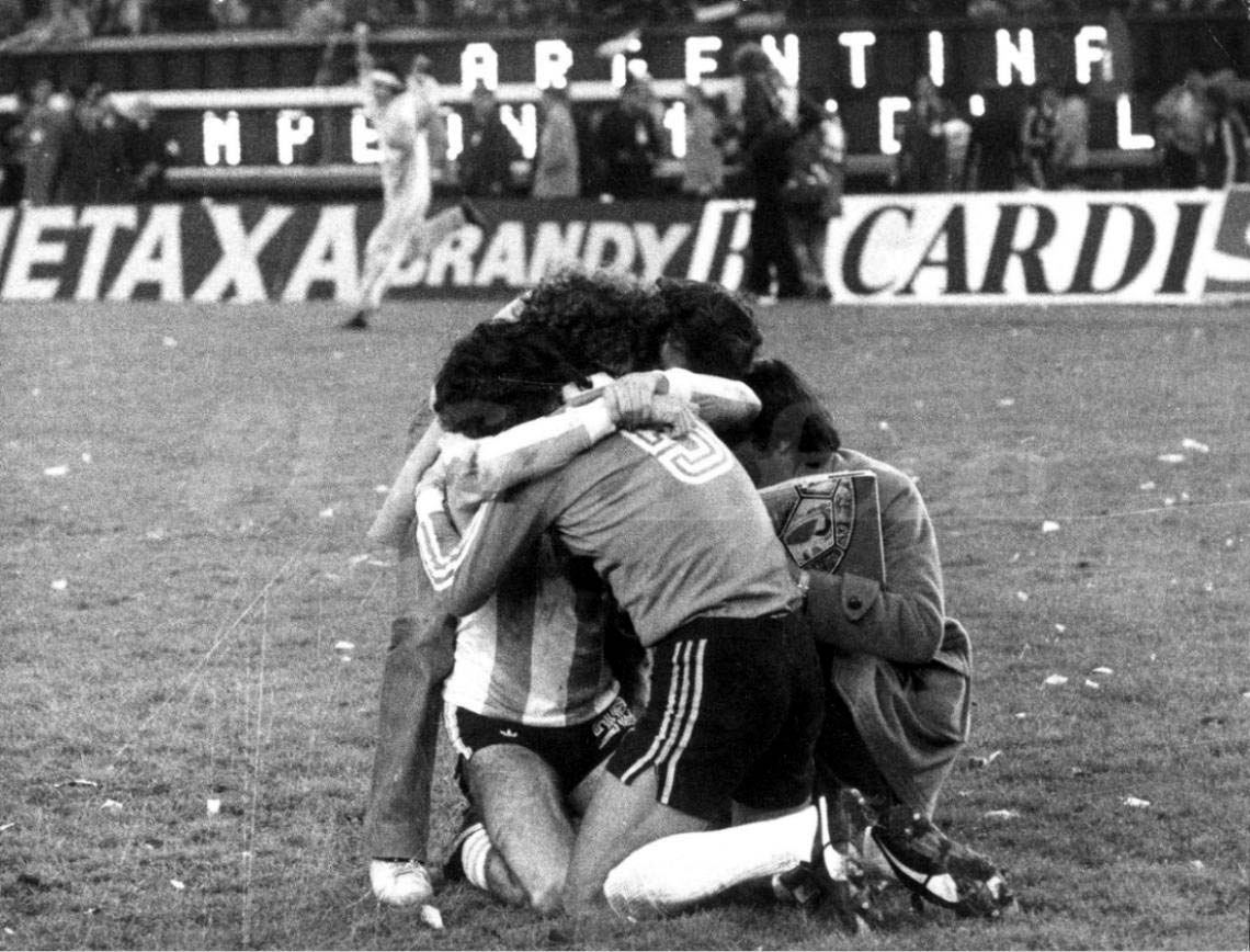 Fillol, Tarantini and fans in a huge to celebrate the World Cup.